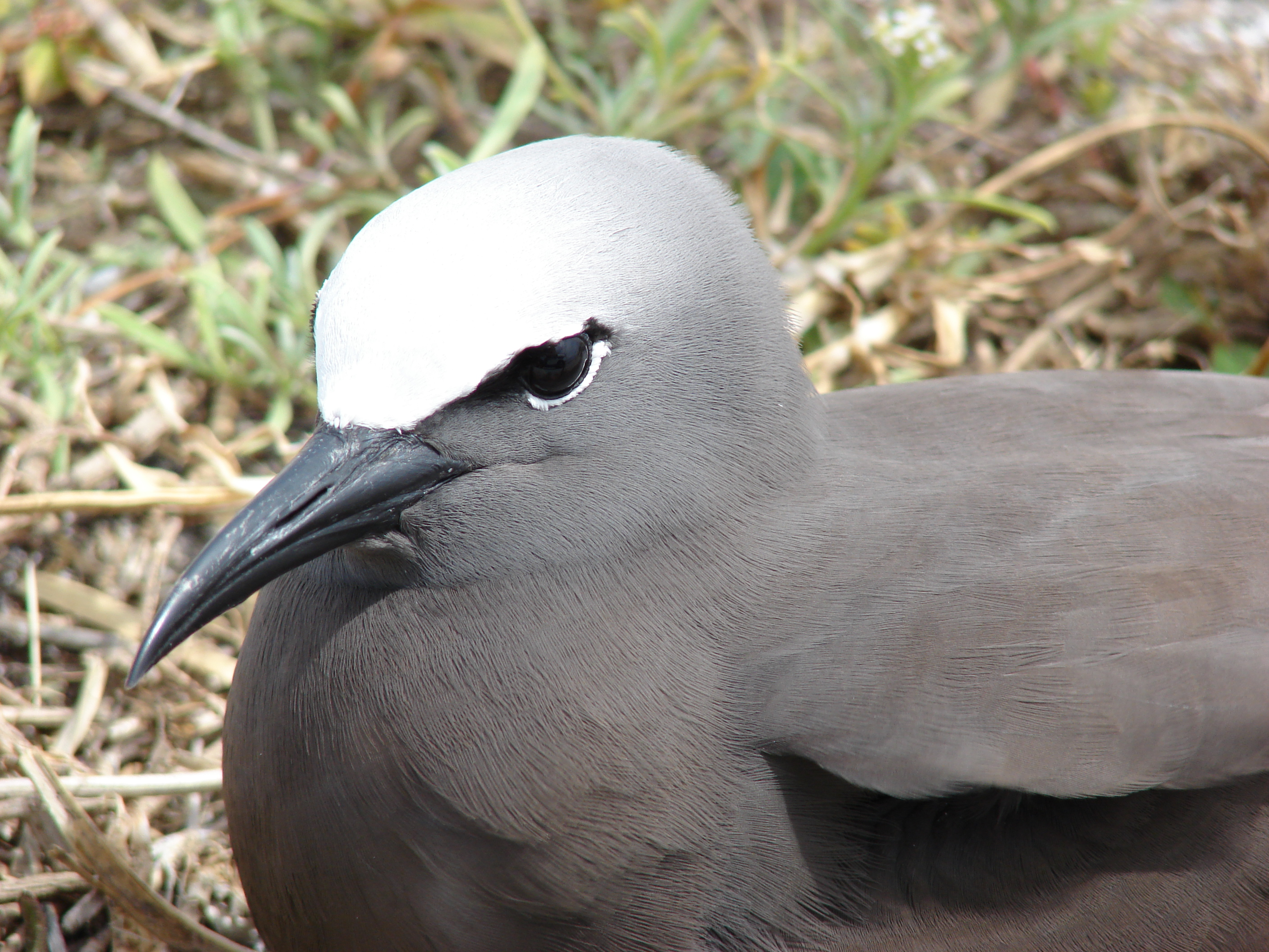 Lobularia maritima (habit with brown noddy). Location: Midway Atoll, South Beach Sand Island